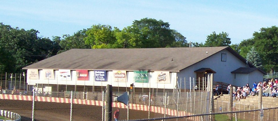 Looking west at the National Midget Auto Racing Hall of Fame from the grandstands at Angell Park Speedway in Sun Prairie, Wisconsin.